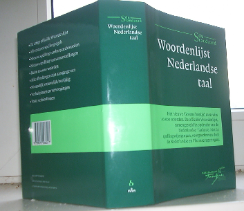 The Woordenlijst Nederlandse Taal, known as the "Green Book", the official spelling list of words in the Dutch language.